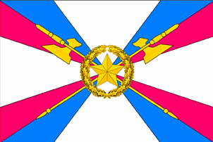 The flag of the Rear Services of the Russian Armed Forces Instituted on June 14, 2004.